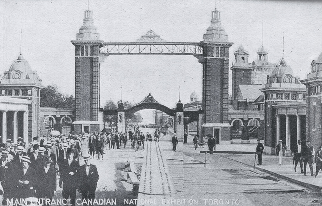 The Dufferin Gate at the Exhibition Grounds during the Canadian National Exhibition. The original Dufferin Gate was built in 1895. The gate in this photo was constructed in 1910, and replaced by the current gate in 1959.